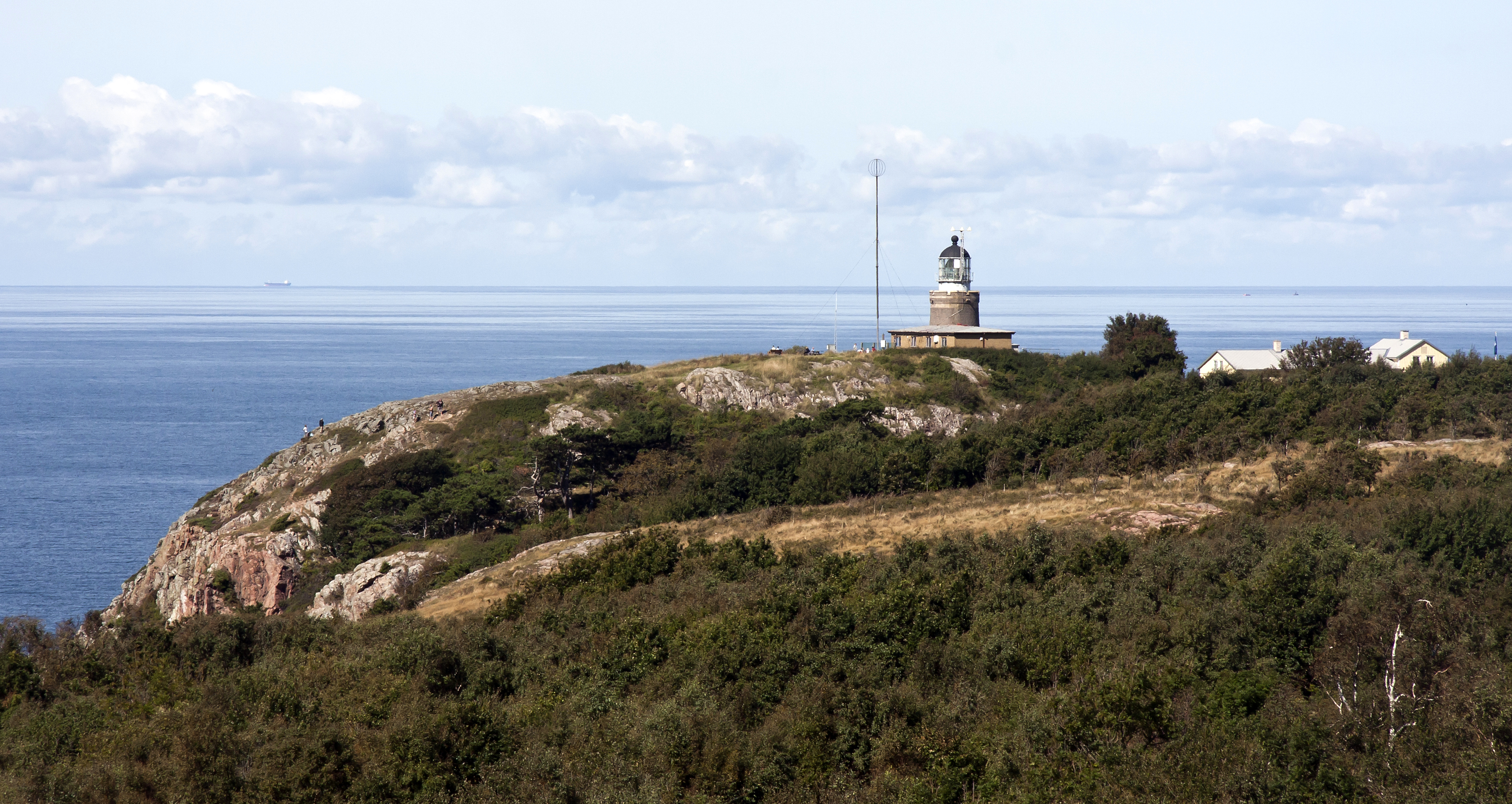 The lighthouse on Kullaberg in Scania, Sweden.